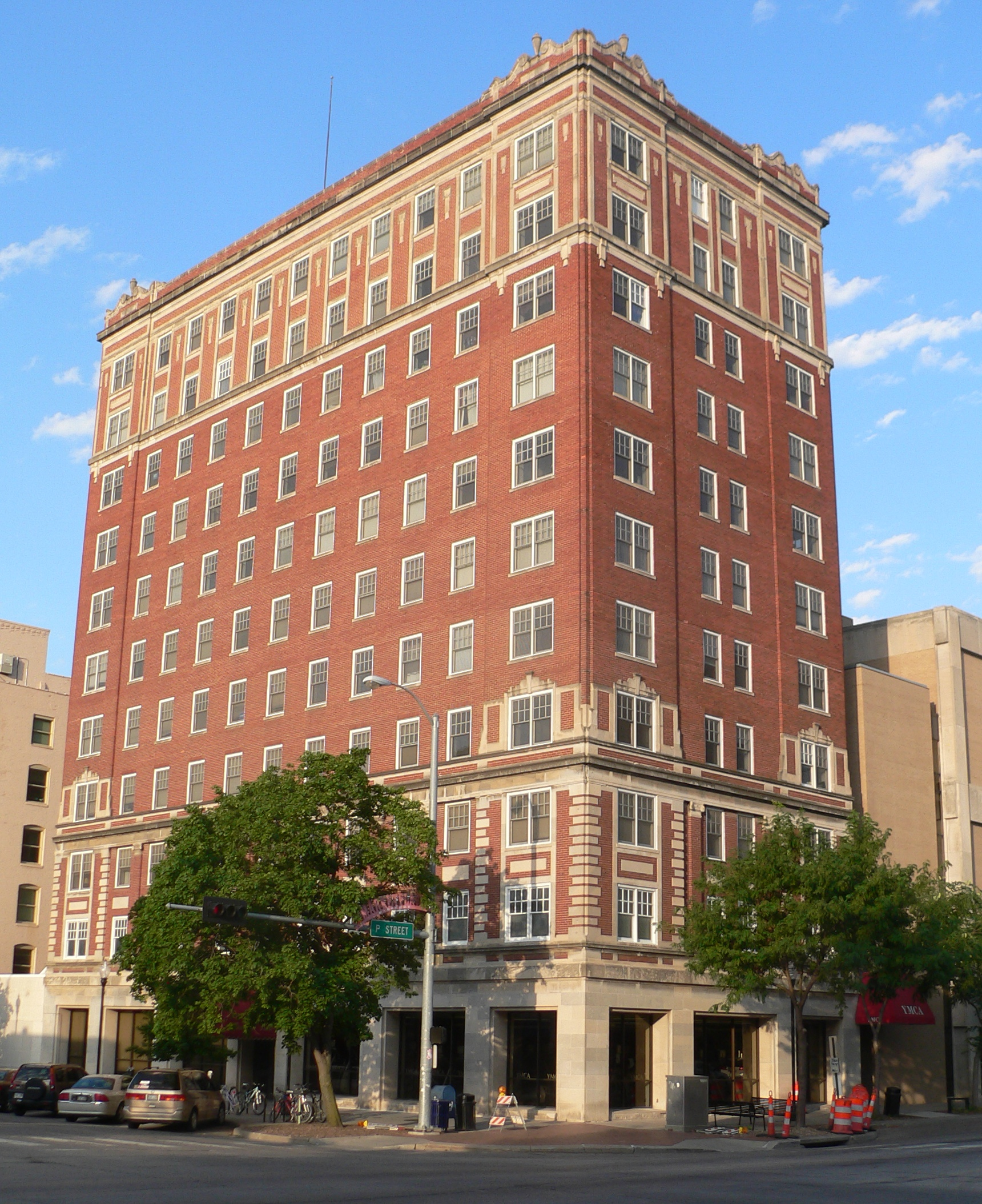 Hotel Capital, now the YMCA building, located at 139 N. 11th Street (southwest corner of 11th and P Streets) in Lincoln, Nebraska; seen from the northeast.